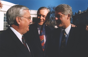 Senator Orrin Hatch introduces President Bill Clinton to LDS Church leader M. Russell Ballard at the signing of the Religious Freedoms Restoration Act (RFRA) on Nov. 16, 1993.